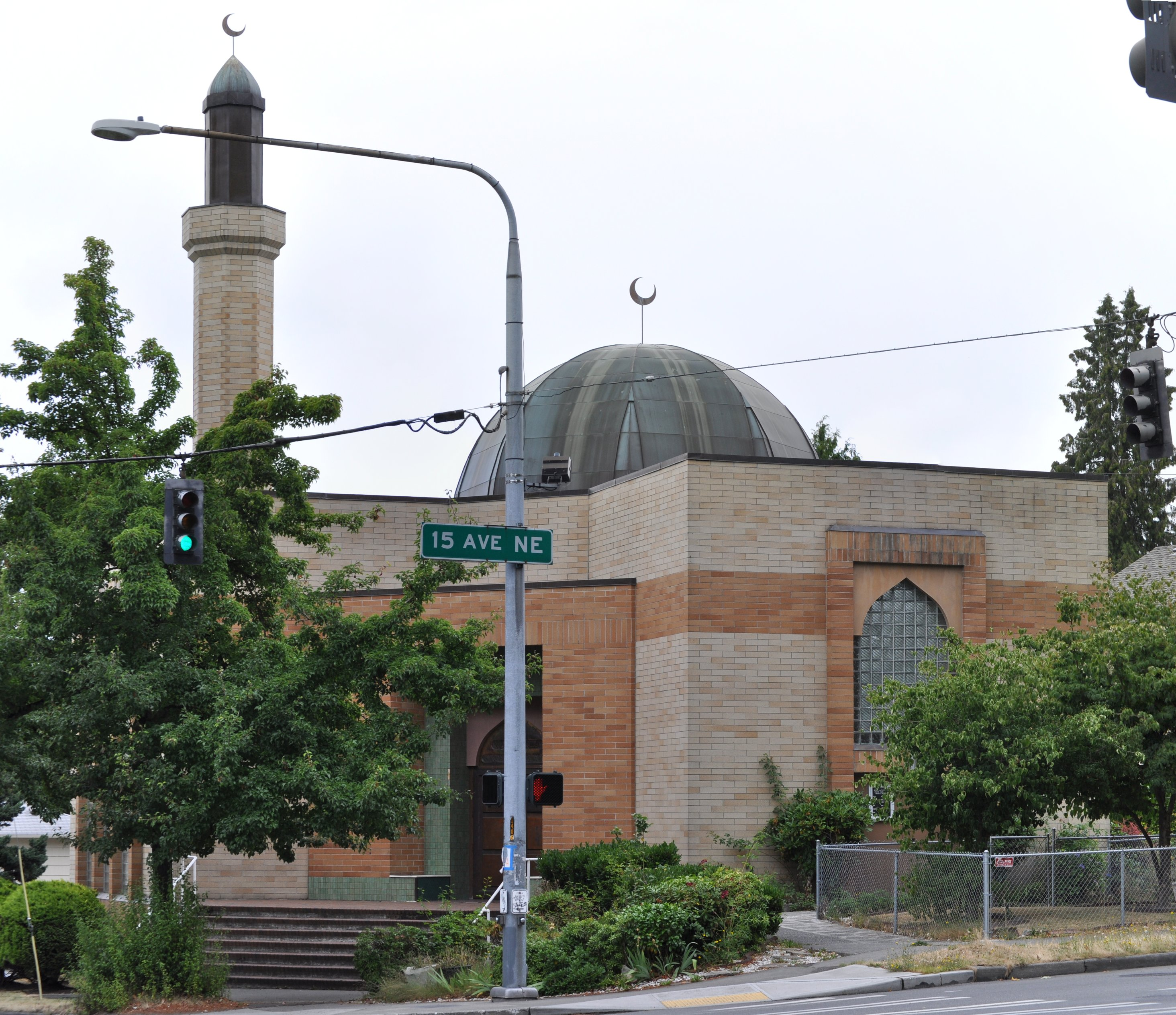 Idriss Mosque, Seattle, Washington. This image was created with Hugin